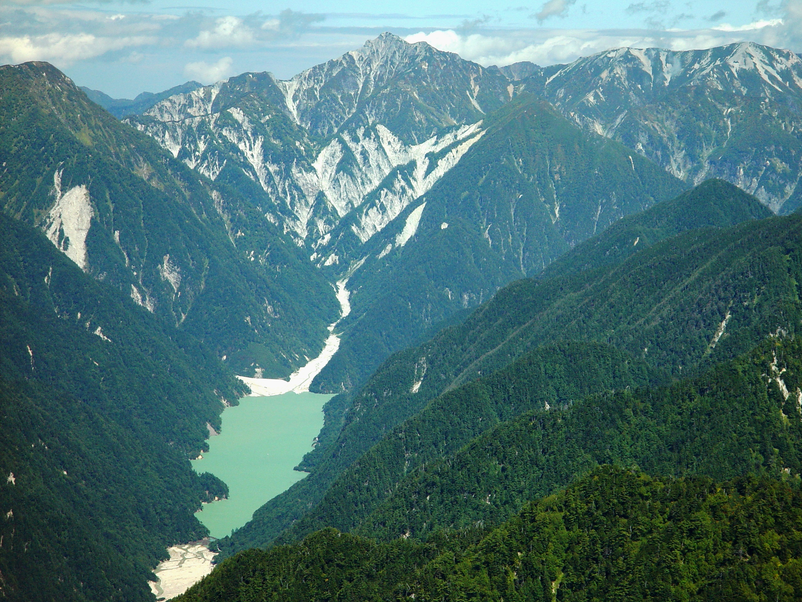 Takase Dam and Mount Harinoki seen from Mount Otensho in Hida Mountains, Japan.